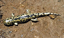 Tiger salamander (Ambystoma tigrinum)